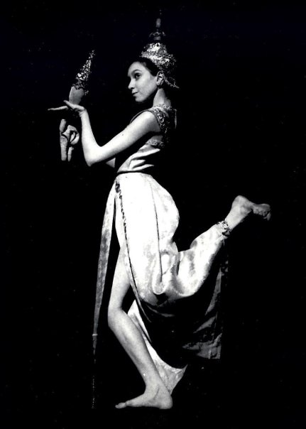 Barbara Britton in 1982 performance of The King and I at the School for Creative and Performing Arts in Cincinnati, Ohio.